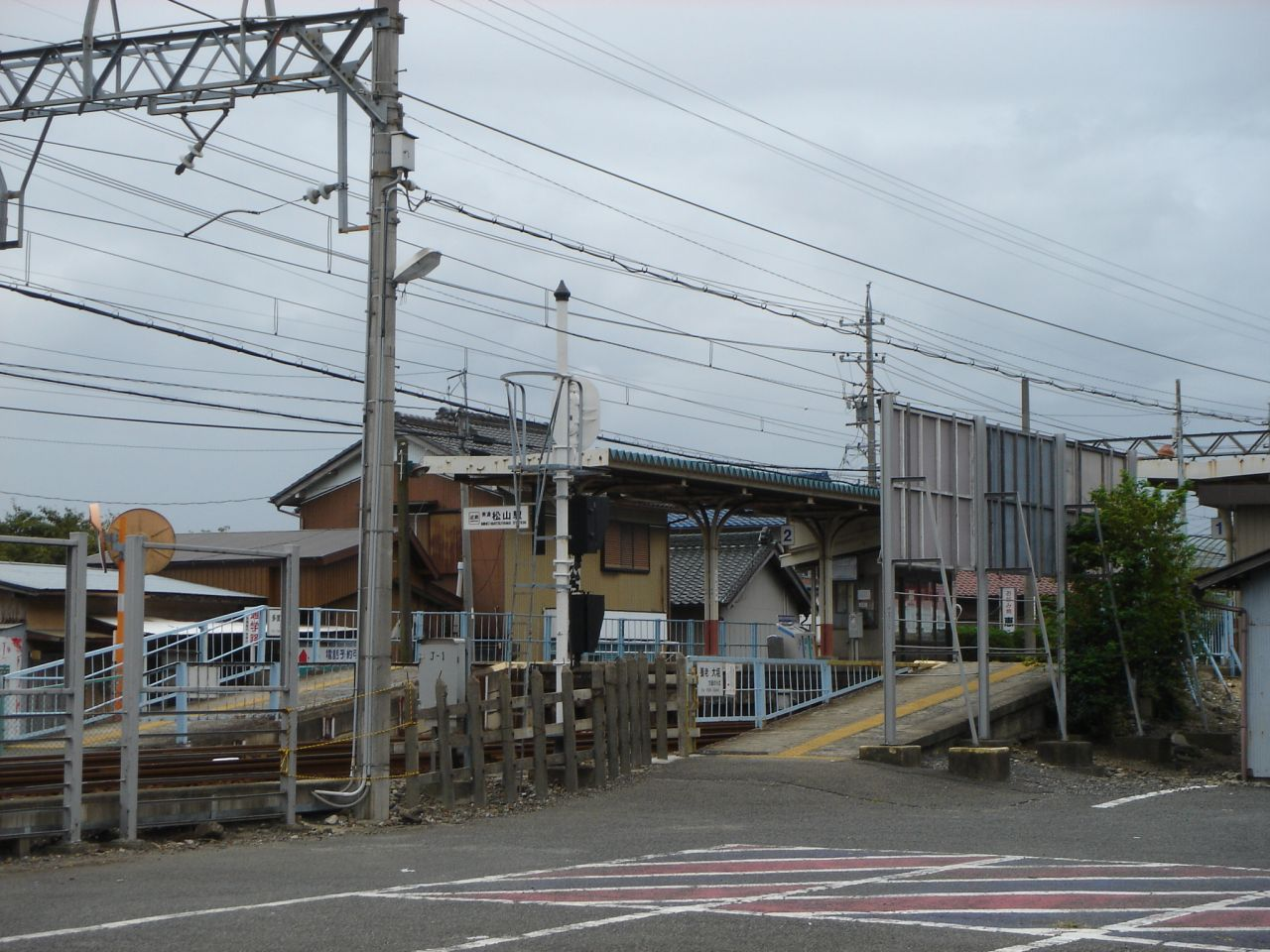 Mino-Matsuyama Station in Gifu Prefecture.（美濃松山駅）,Kaizu,Gifu,Japan(岐阜県海津市)で撮影。